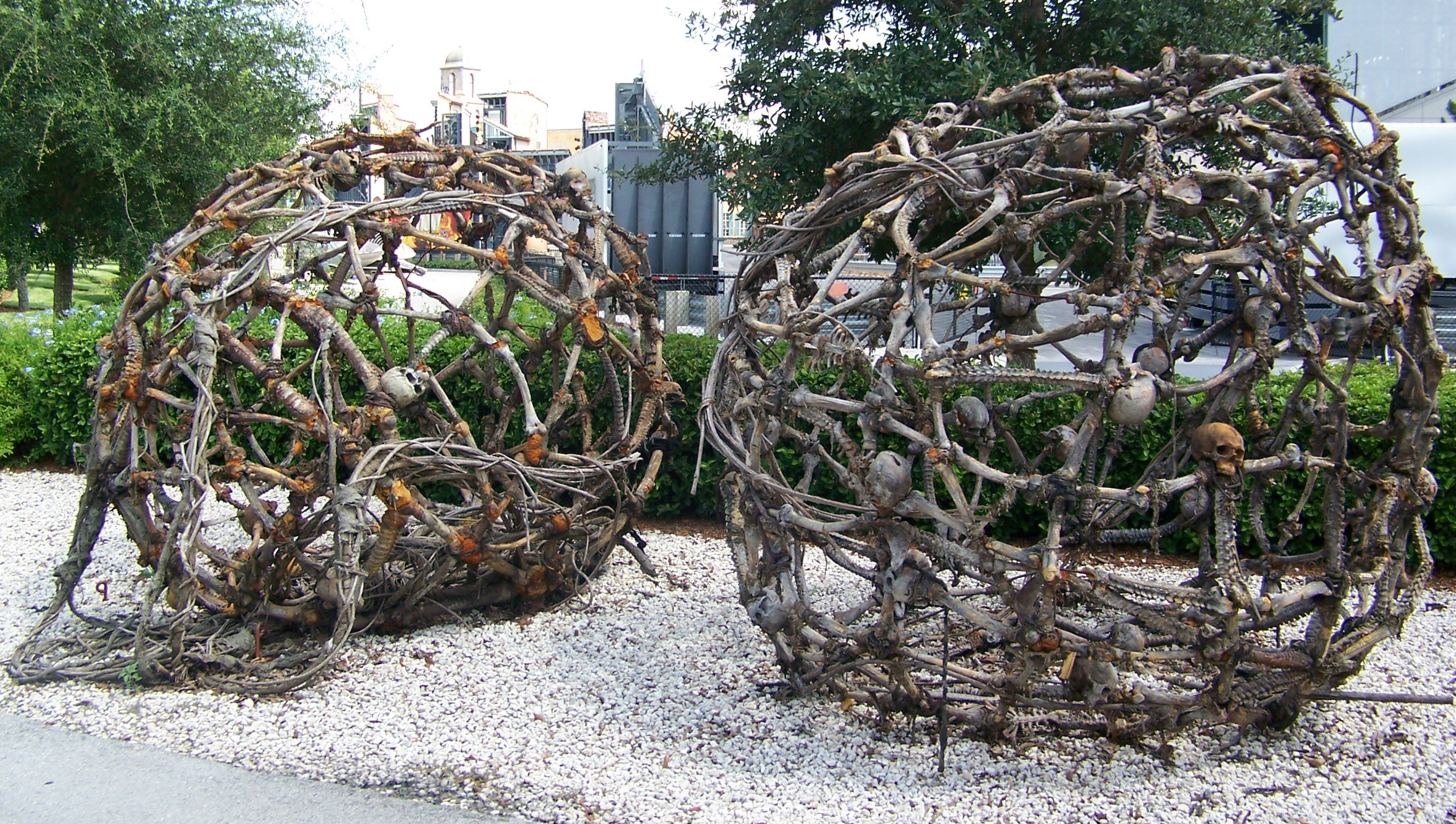 The two bone cages used in the 2006 film Pirates of the Caribbean: Dead Man's Chest, featured on The Disney-MGM Studios Backlot Tour at Disney-MGM Studios. In the film, the two cages hold various captors and are suspended by vines. Image taken on July 26, en:2007.